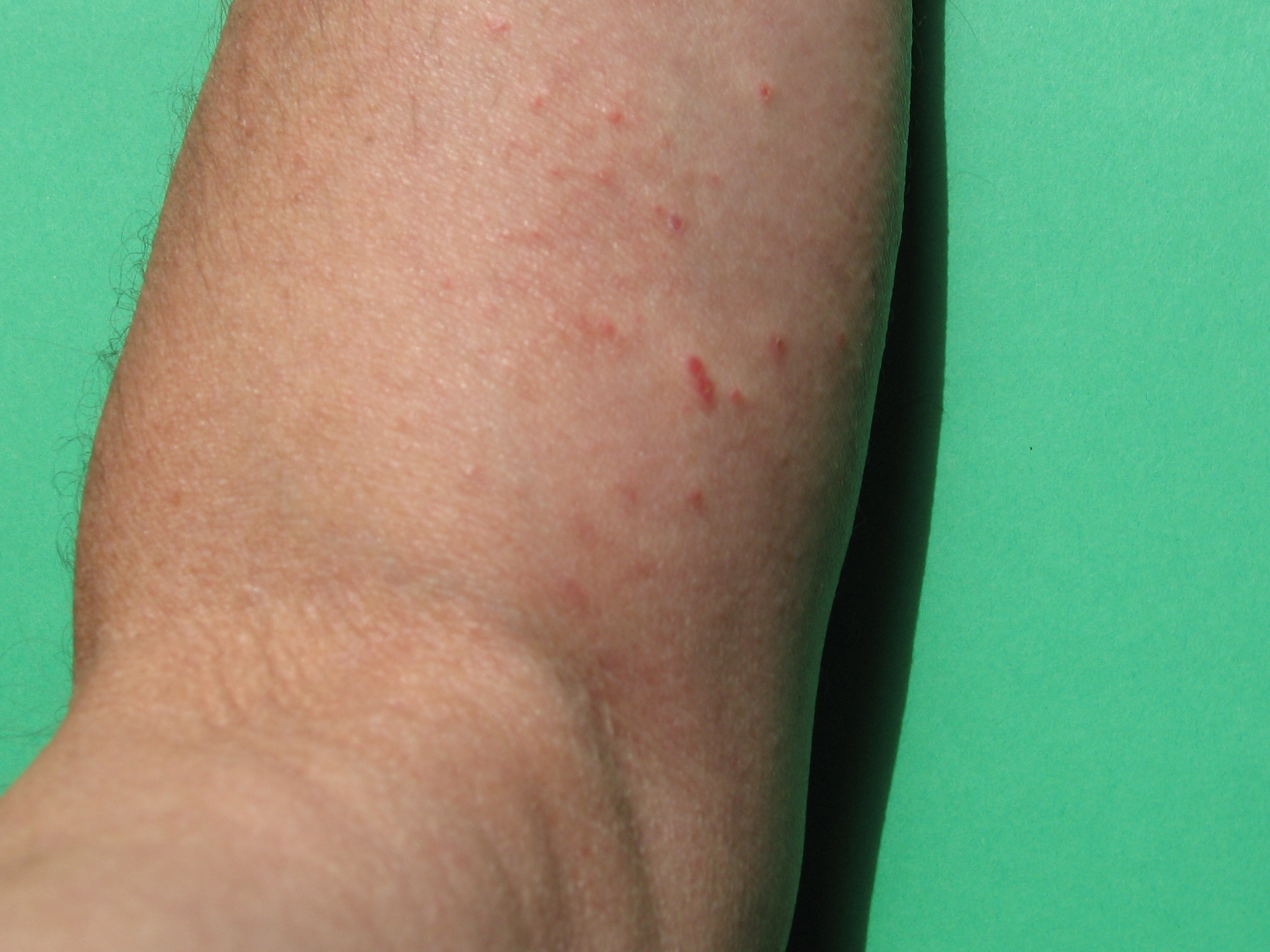 Left arm of a male patient of 62 years. Herpes zoster outbreak in remission, 2019.